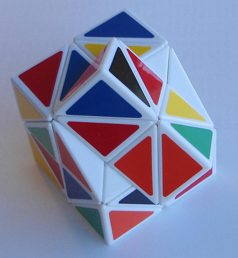 Helicopter Cube, with a ~71° turn in preparation for a jumbling twist.